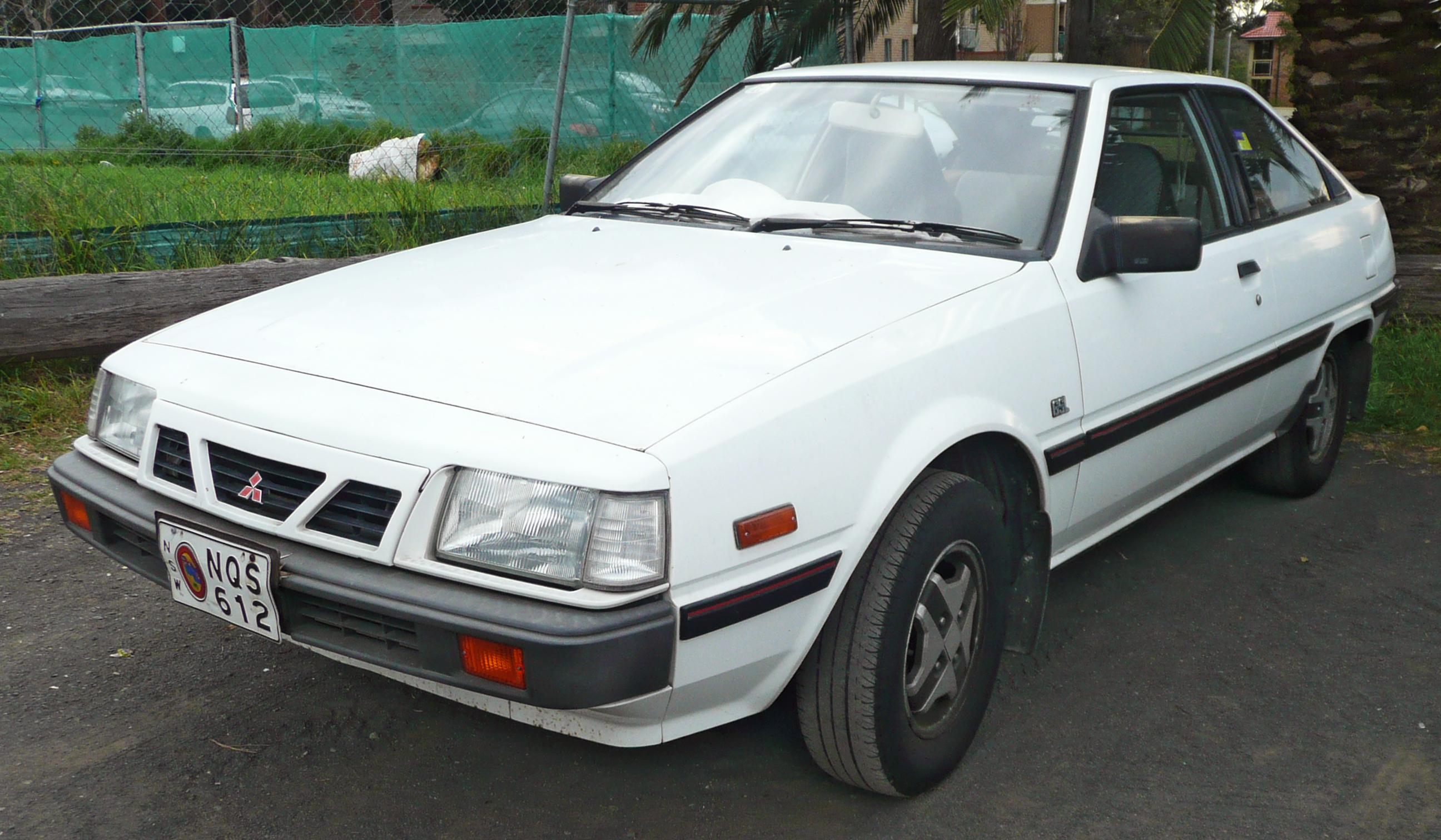 1985 Mitsubishi Cordia (AB) GSL hatchback. The alloys wheels are from the GSR trim level. Photographed in Sutherland, New South Wales, Australia.